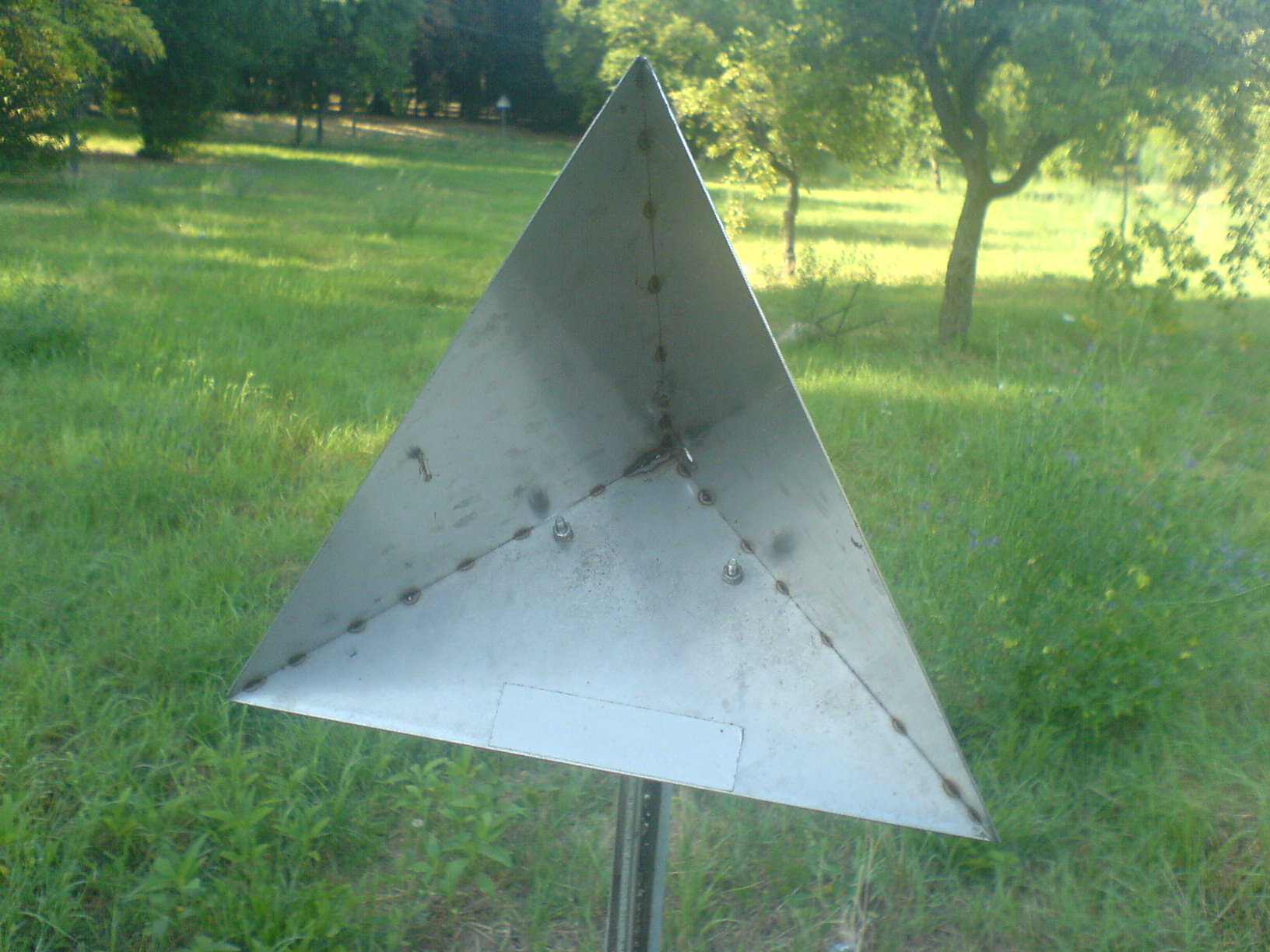 Corner reflector in Florence